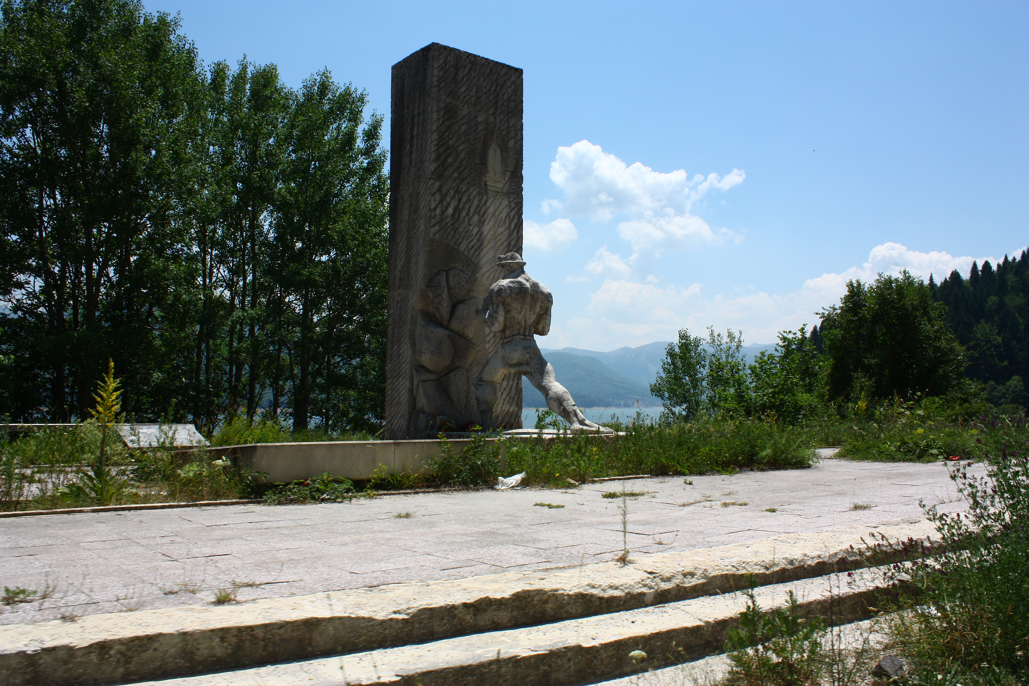 Mavrovi Anovi, Macedonia